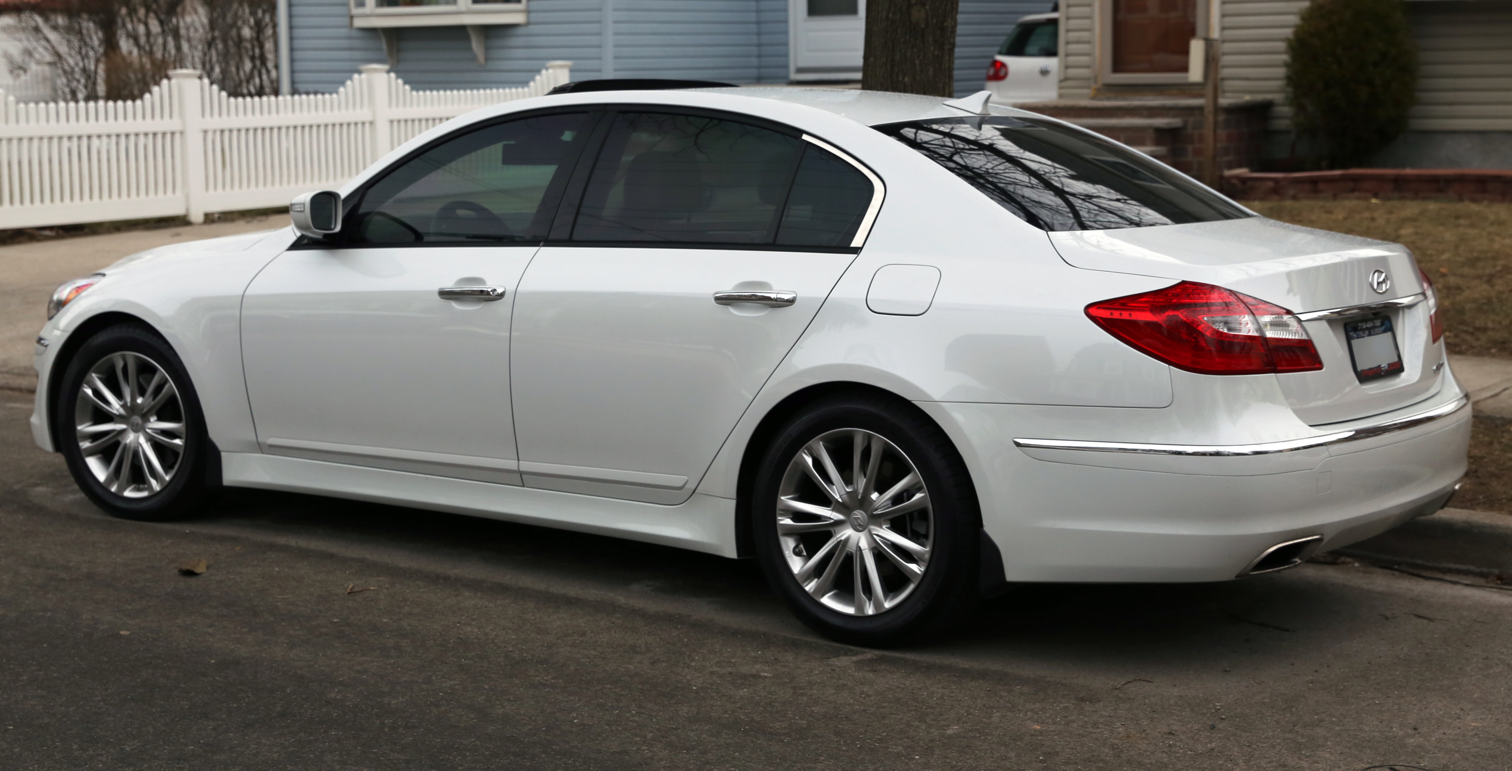 2013 Hyundai Genesis sedan, with the 3.8 litre V6 engine. Built in Ulsan, South Korea.